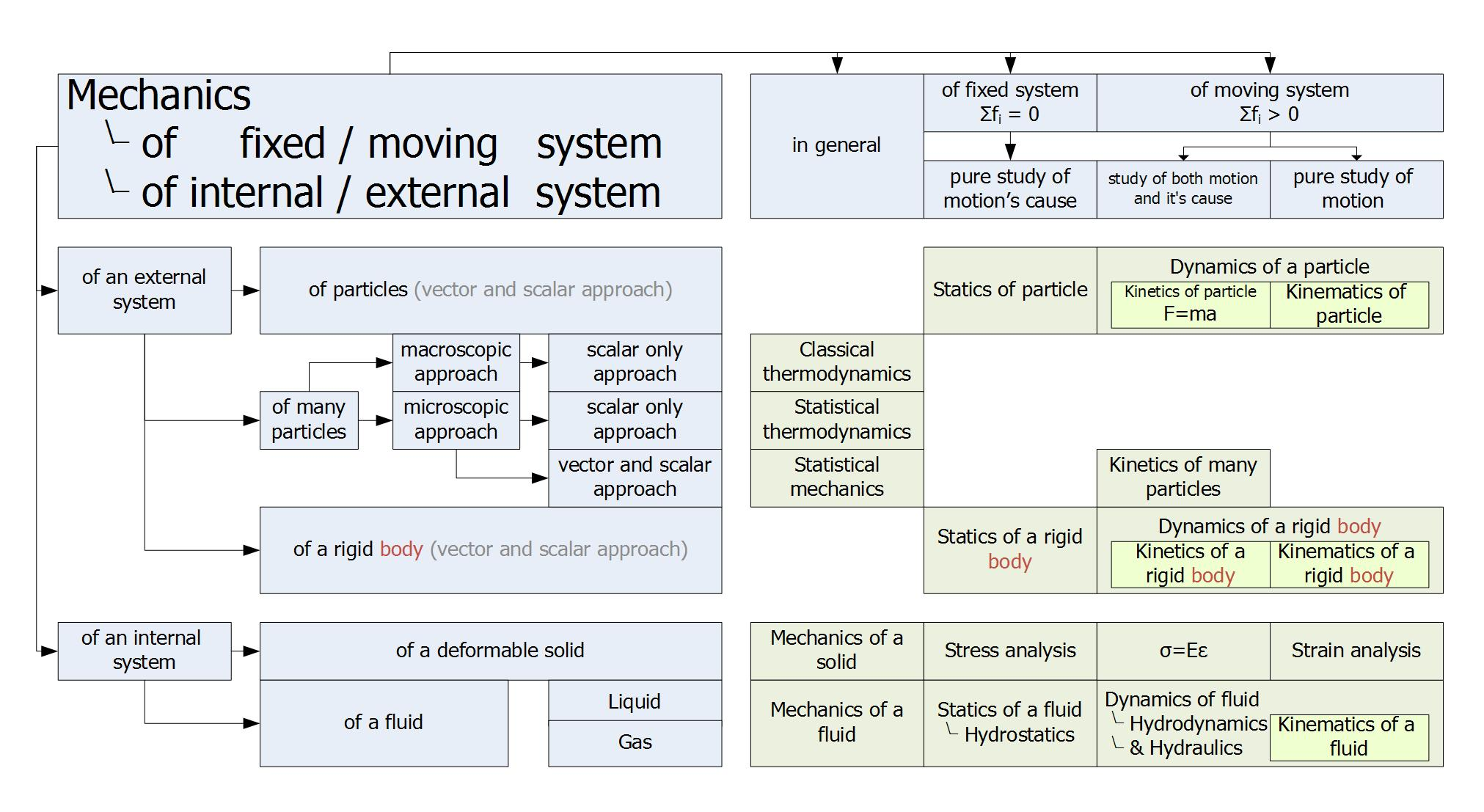 branches of mechanics (green) and their relative place in the Island of "Physics of Mechanics" and "Mechanical engineering"